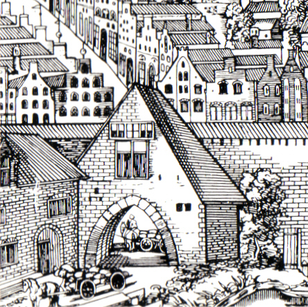 Hüxtertor town gate in Lübeck